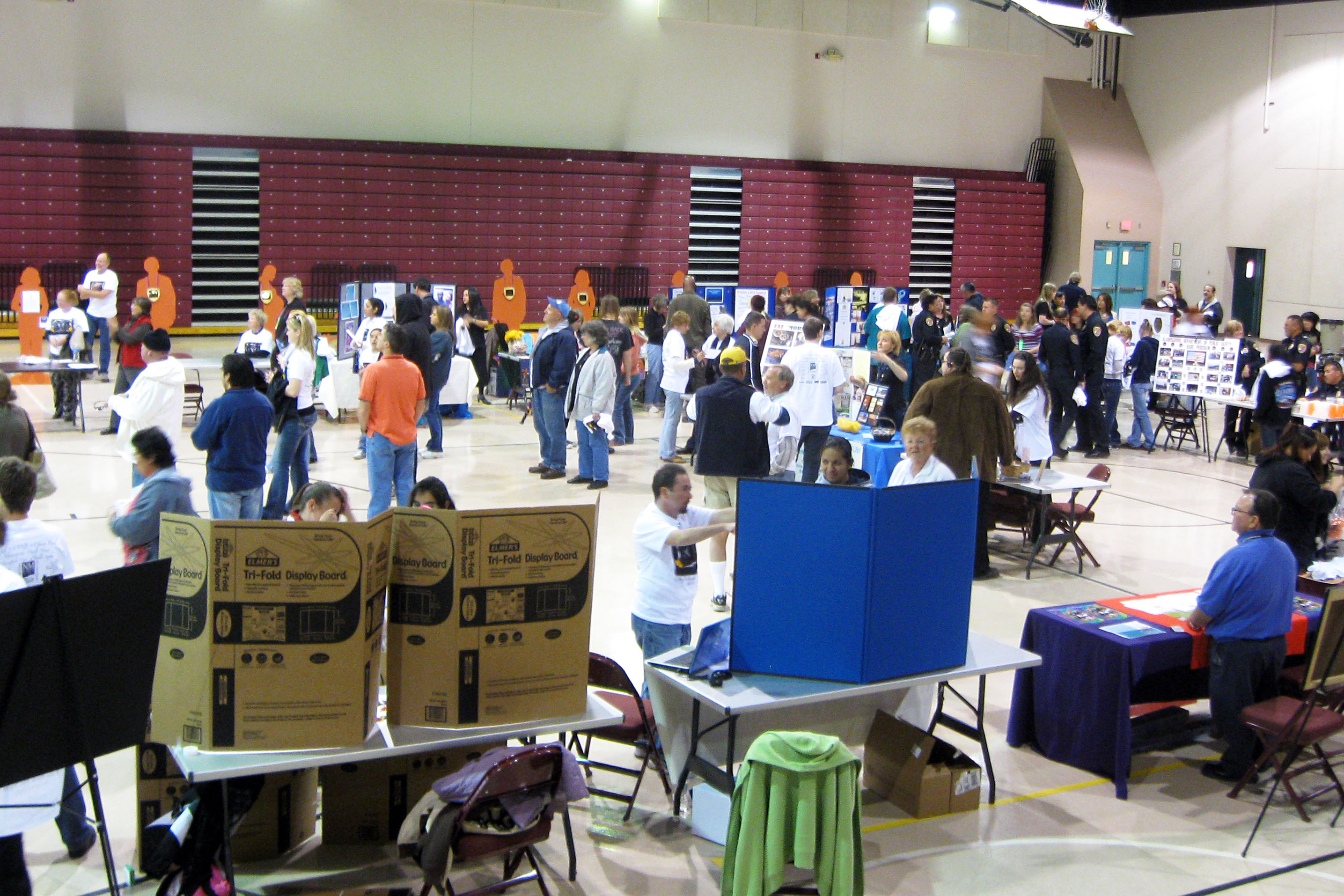 Exhibit area for a Take Back The Night program held at the Tays Special Events Center of New Mexico State University-Alamogordo. A rally was held and a protest march began in this location later that evening. Take Back The Night is an international program of rallies and protest marches against sexual violence.